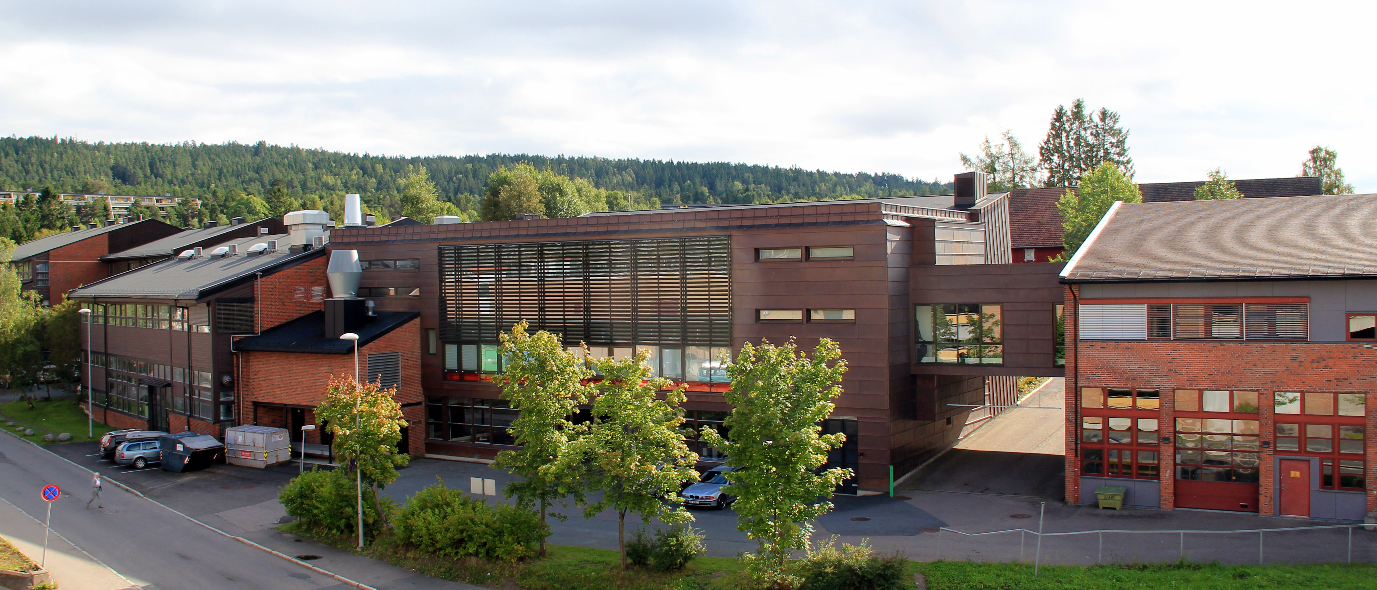 Stovner Upper Secondary High School, Oslo